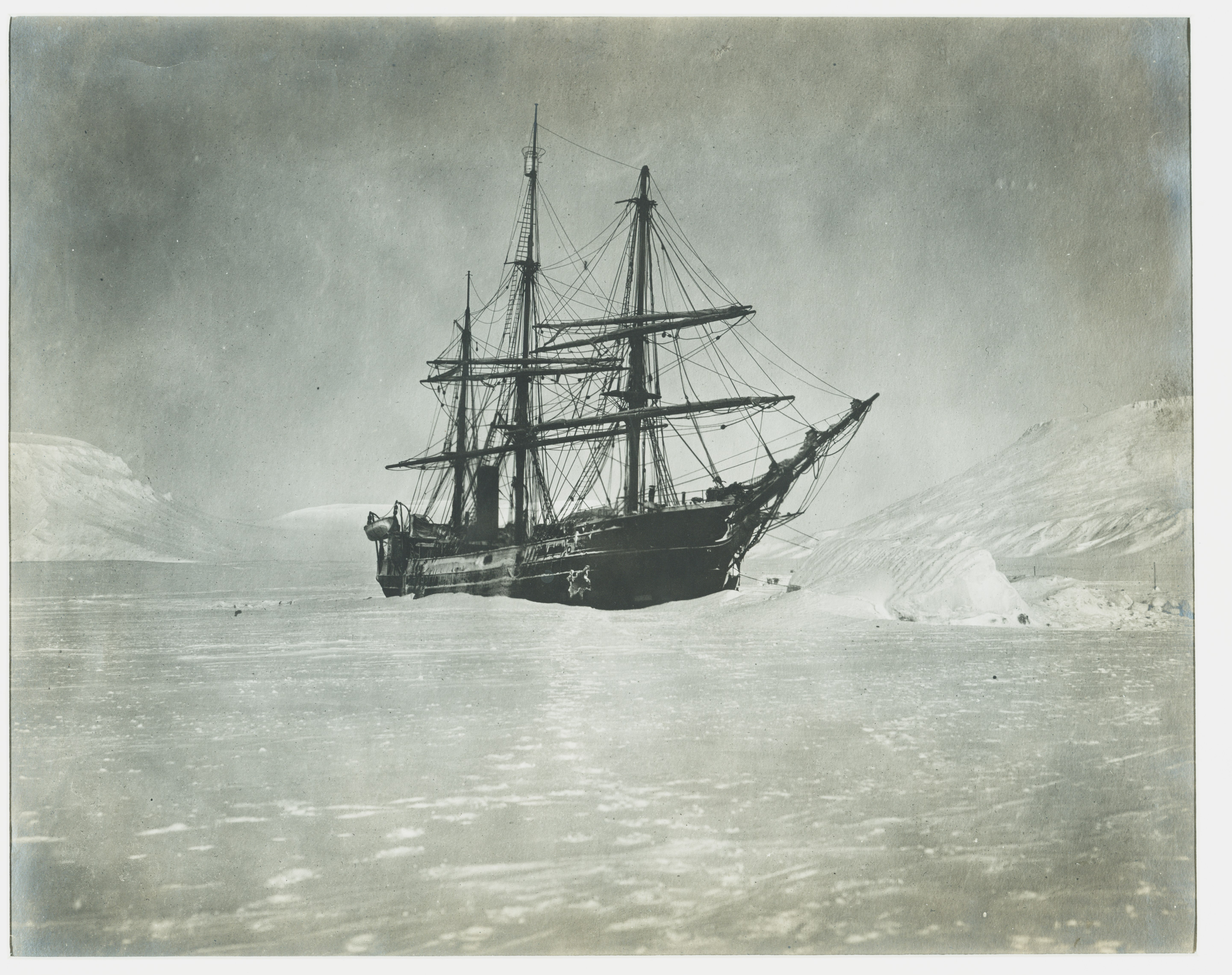 Title: A moonlight picture of the "America" taken Christmas night, 1901, Baldwin-Ziegler Polar Expedition Abstract/medium: 1 photographic print.